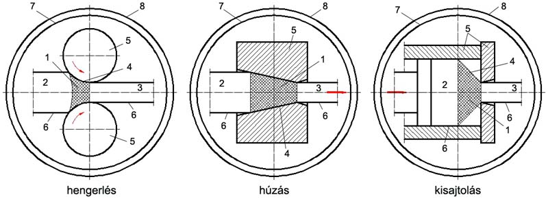 Identities of plastic deformation procedures